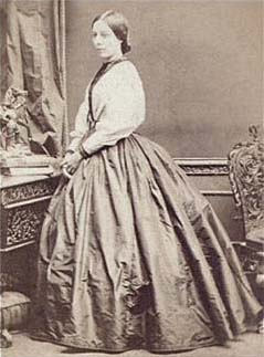 Louise J Rayner (1832-1924) was an artist who lived in Chester for many years.